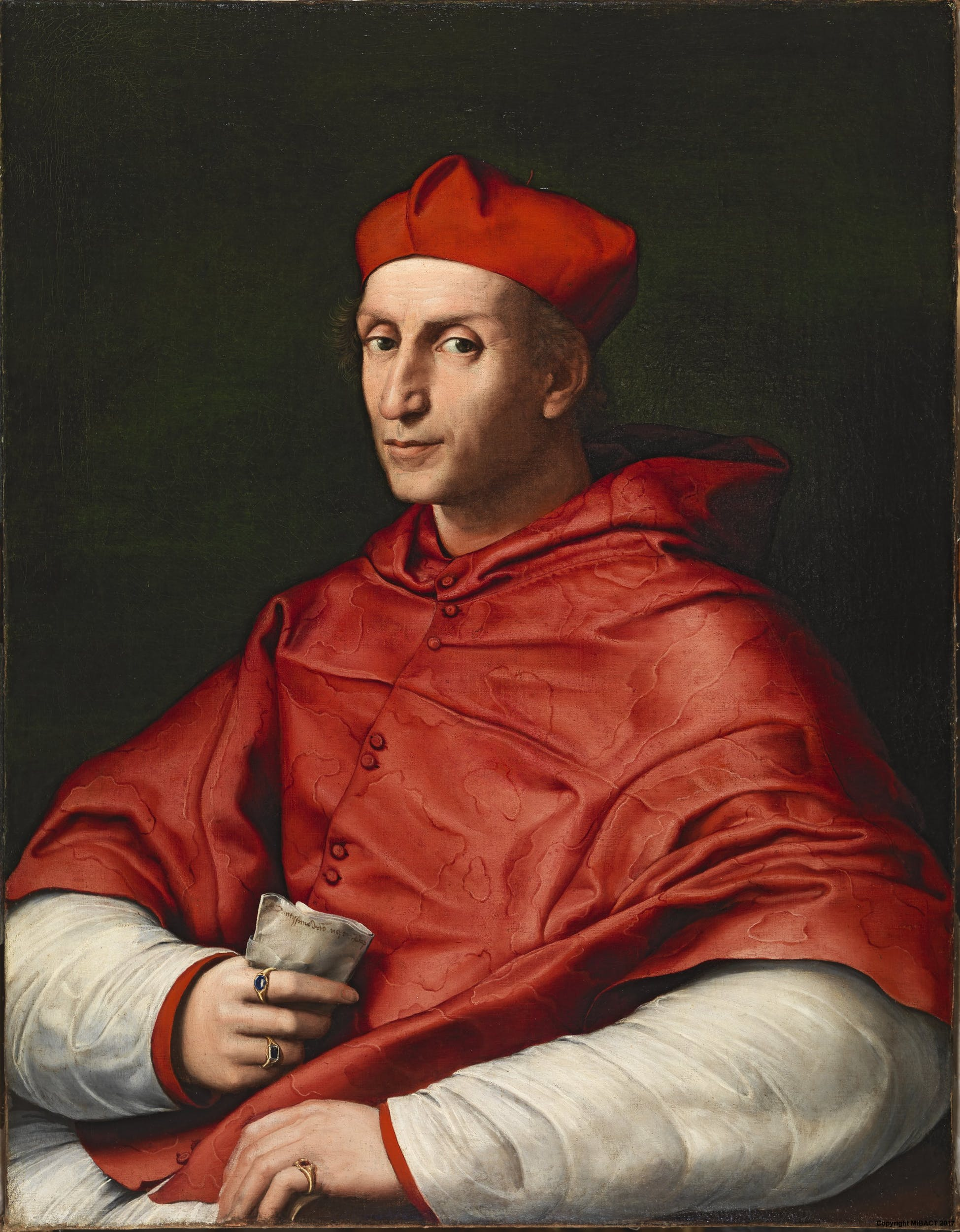 Bernardo Dovizi (Bibbiena 1470- Rome 1520) was a scholar and a diplomat, as well as a friend and trusted private secretary to Pope Leo X. He is shown here in his official dress, consisting of a white robe and the short mozzetta cape in red silk, completed with a red biretta (hat). His right arm is resting on the arm of his chair, while in the left, he holds a letter with the words “Sanctissimo d(omi)no nostro Pap…” evidently addressed to the pope. The slightly lowered viewpoint and the three-quarter pose amplifies the pyramid composition and attracts the gaze to the white sleeve in the foreground, with its fine pleats in light fabric, which contrasts with the thickness of the damask mantle. The most prominent part of the portrait is the shrewd expression and attentive gaze of the subject, which transmits his authority, his intellectual strength, but also his more human essence.